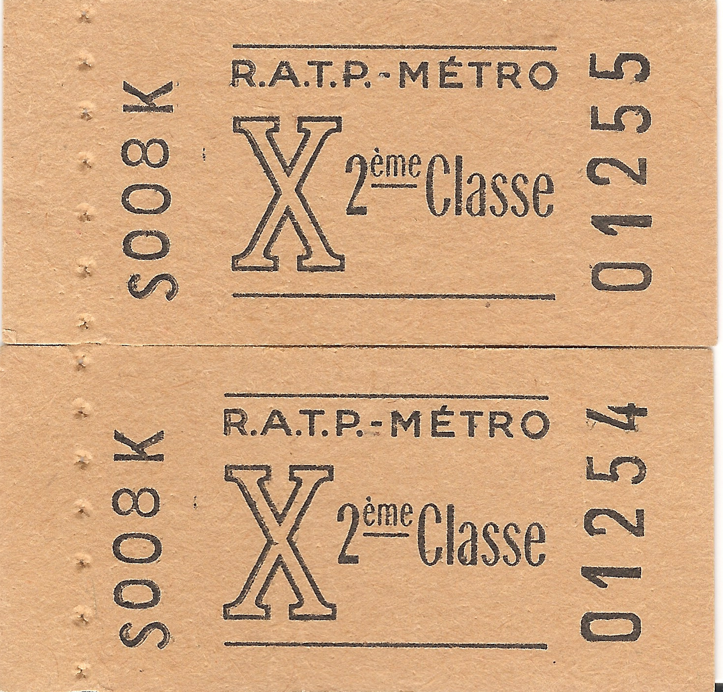 Metro Paris RATP tickets X series. Paris circa 1965.